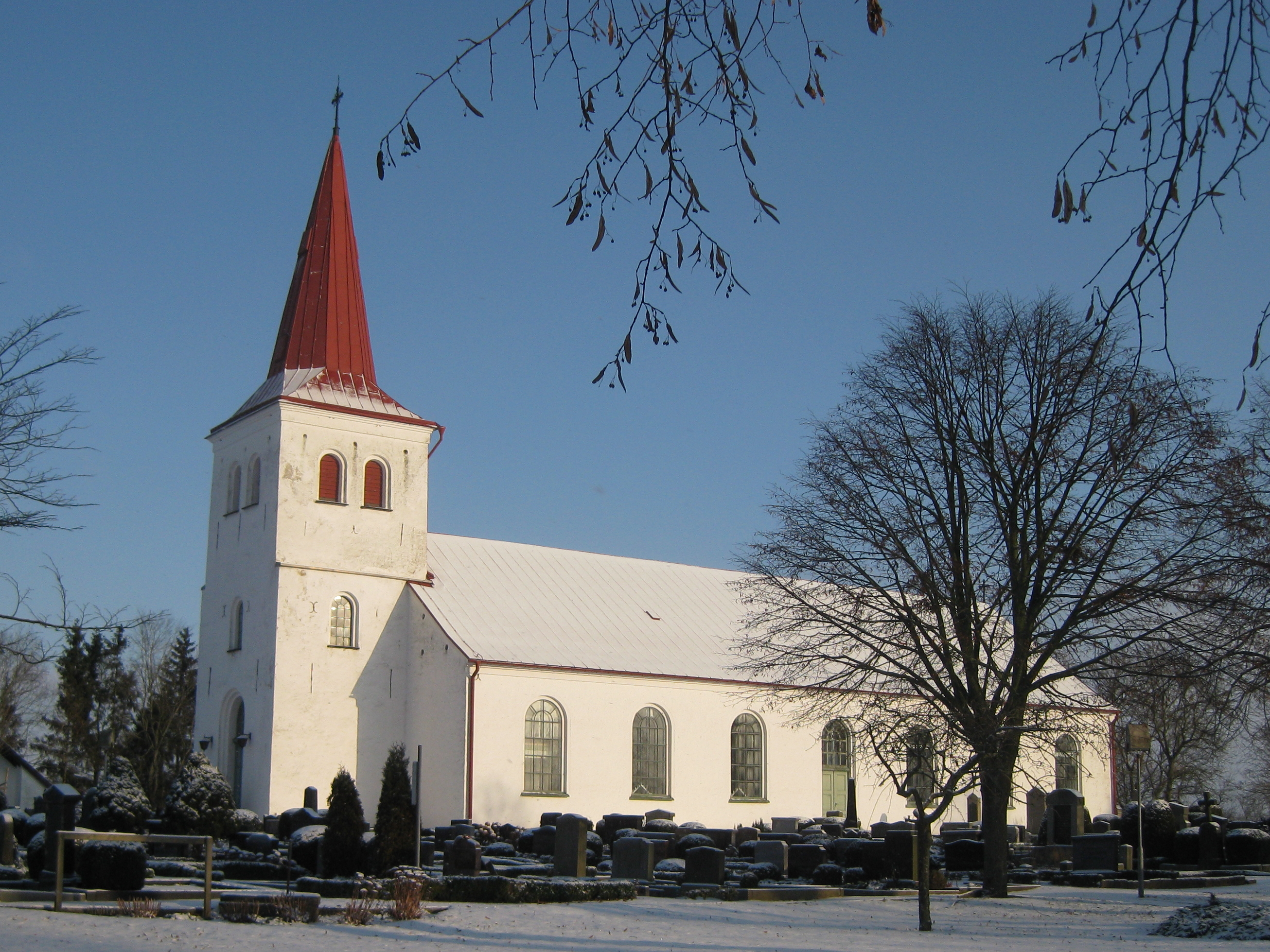 Tryde church Tagalog: Tryde kyrka